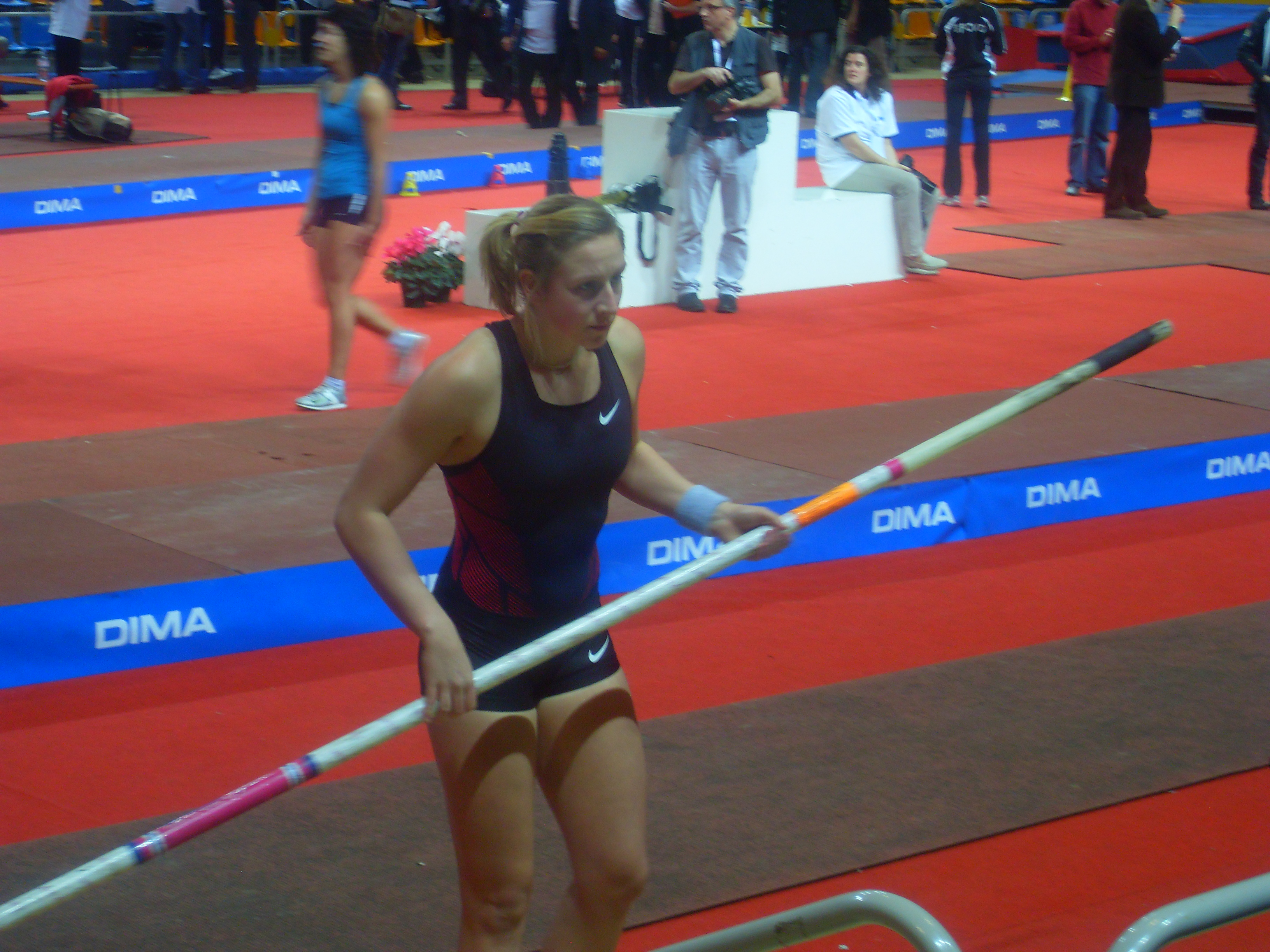 Holly Bleasdale in Palais des Sports of Orléans at the Perche Élite Tour meeting the 11th December 2011